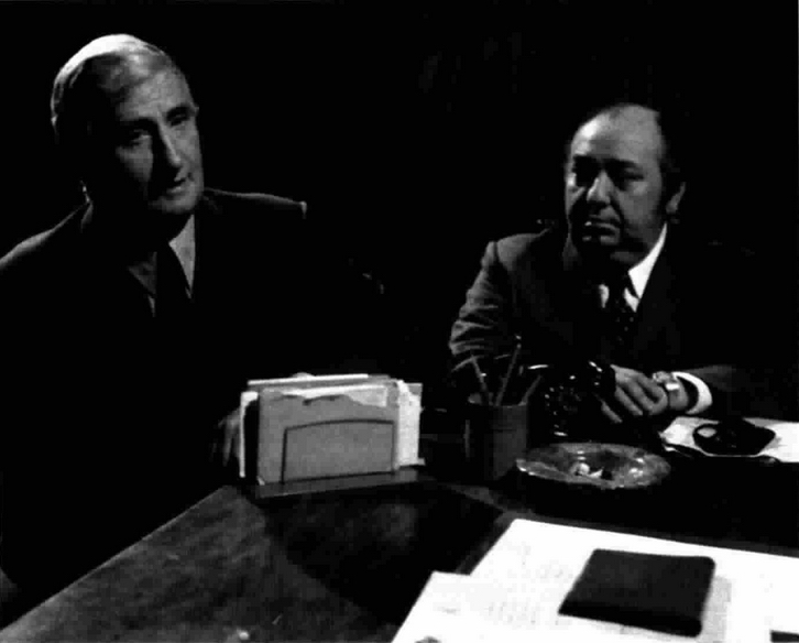 Italian actors Mario Carotenuto and Franco Angrisano